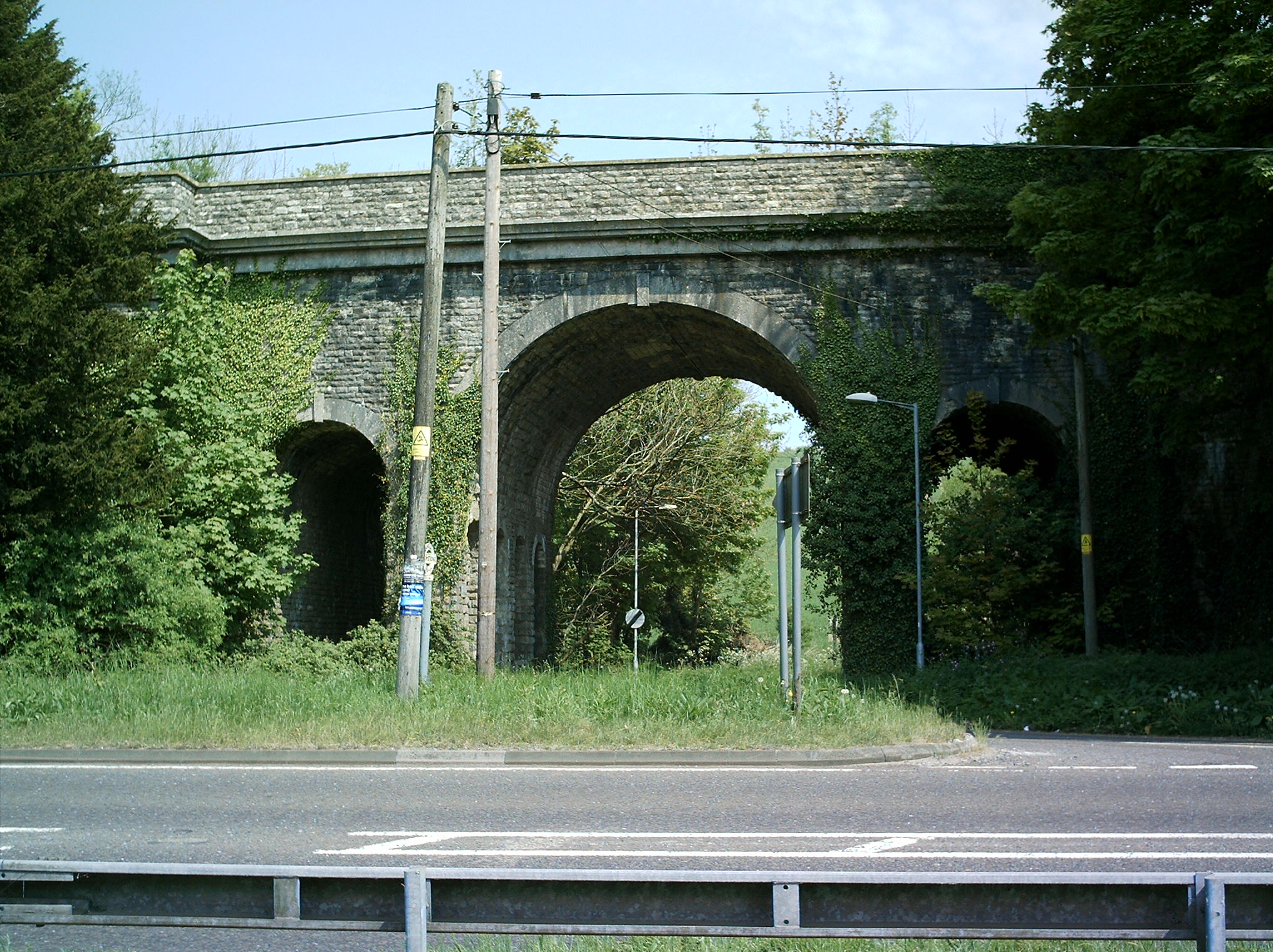 Author: Nigel Johns, Grimstone Viaduct from the West - April 2007